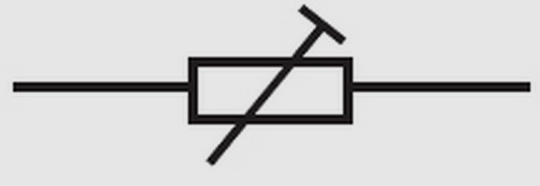 own work